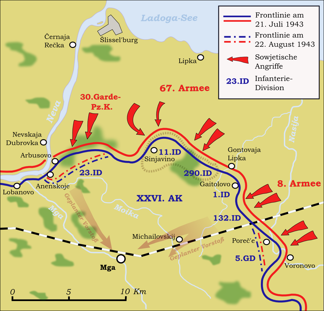 Map (in German language) showing the situation of the beginning of the third battle of Lake Ladoga (July 22nd, 1943) during the German-Soviet War 1941-1945.